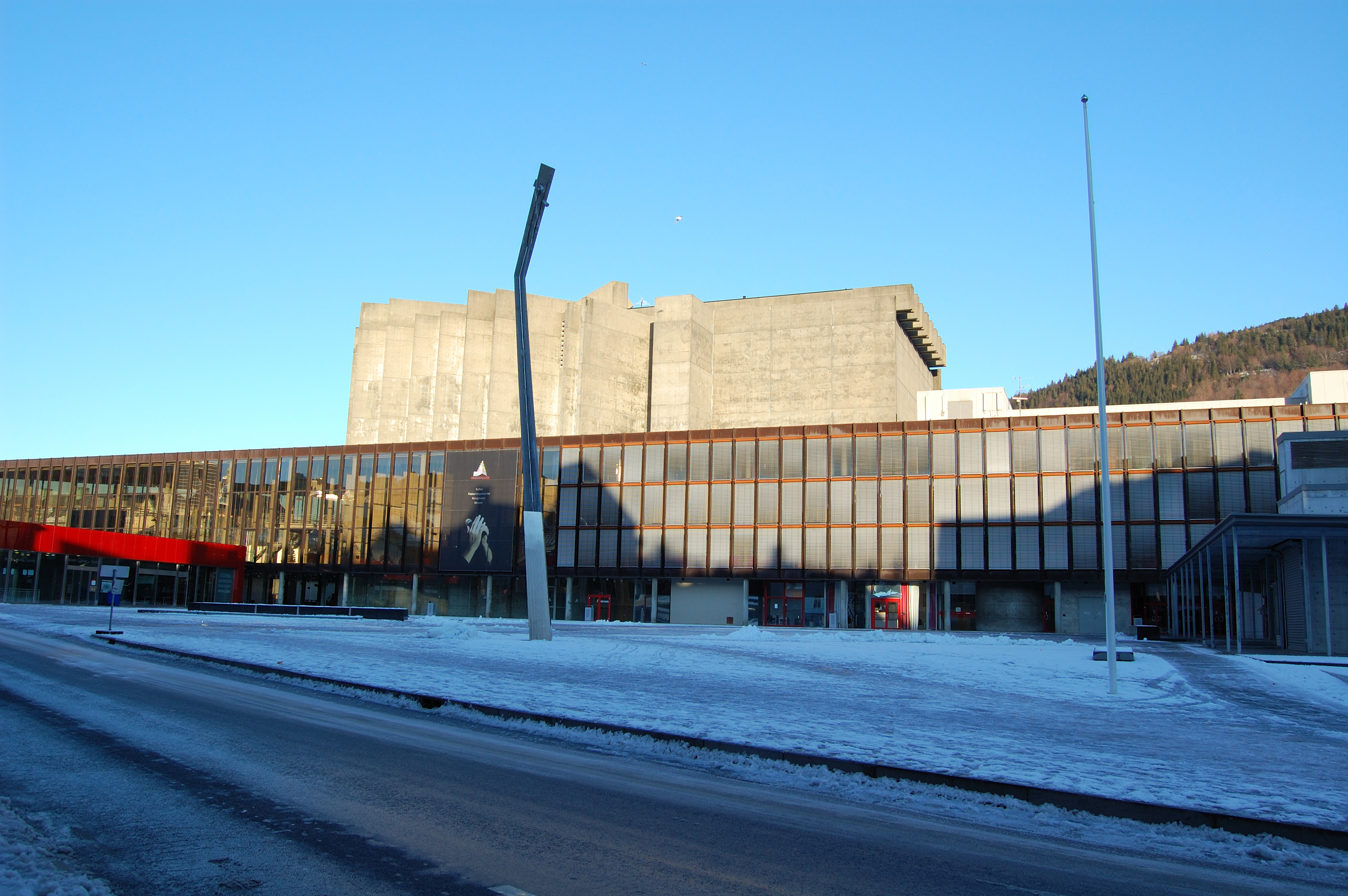 Grieghallen, the concert hall in Bergen, Norway.